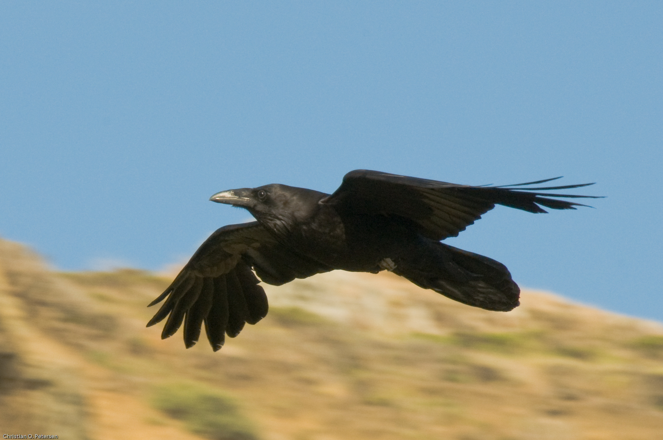 North American Common Raven (Corvus corax principalis) in flight at Muir Beach in Northern California